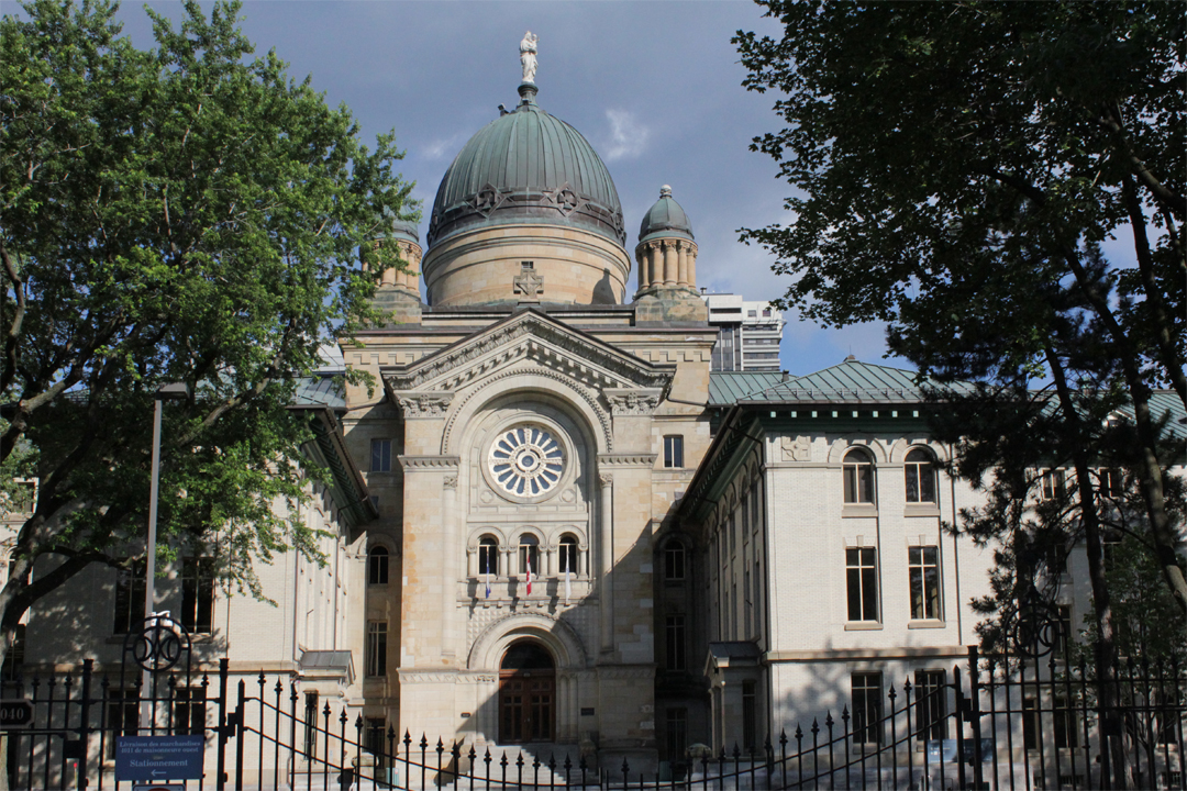 Collège Dawson